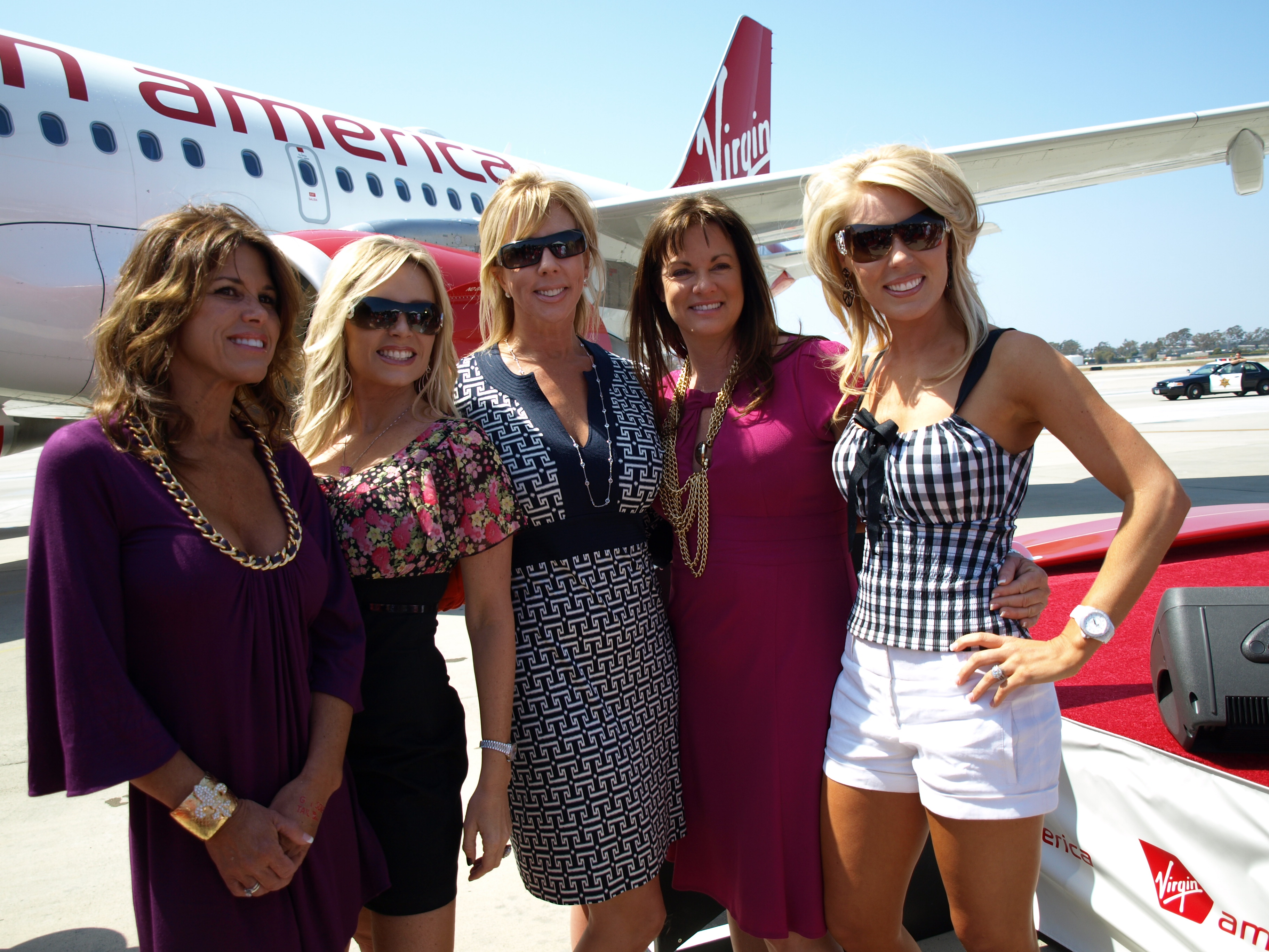 Lynne Curtin, Tamra Barney, Vicki Gunvalson, Jeana Keough, and Gretchen Rossi at the Virgin America OC Launch.